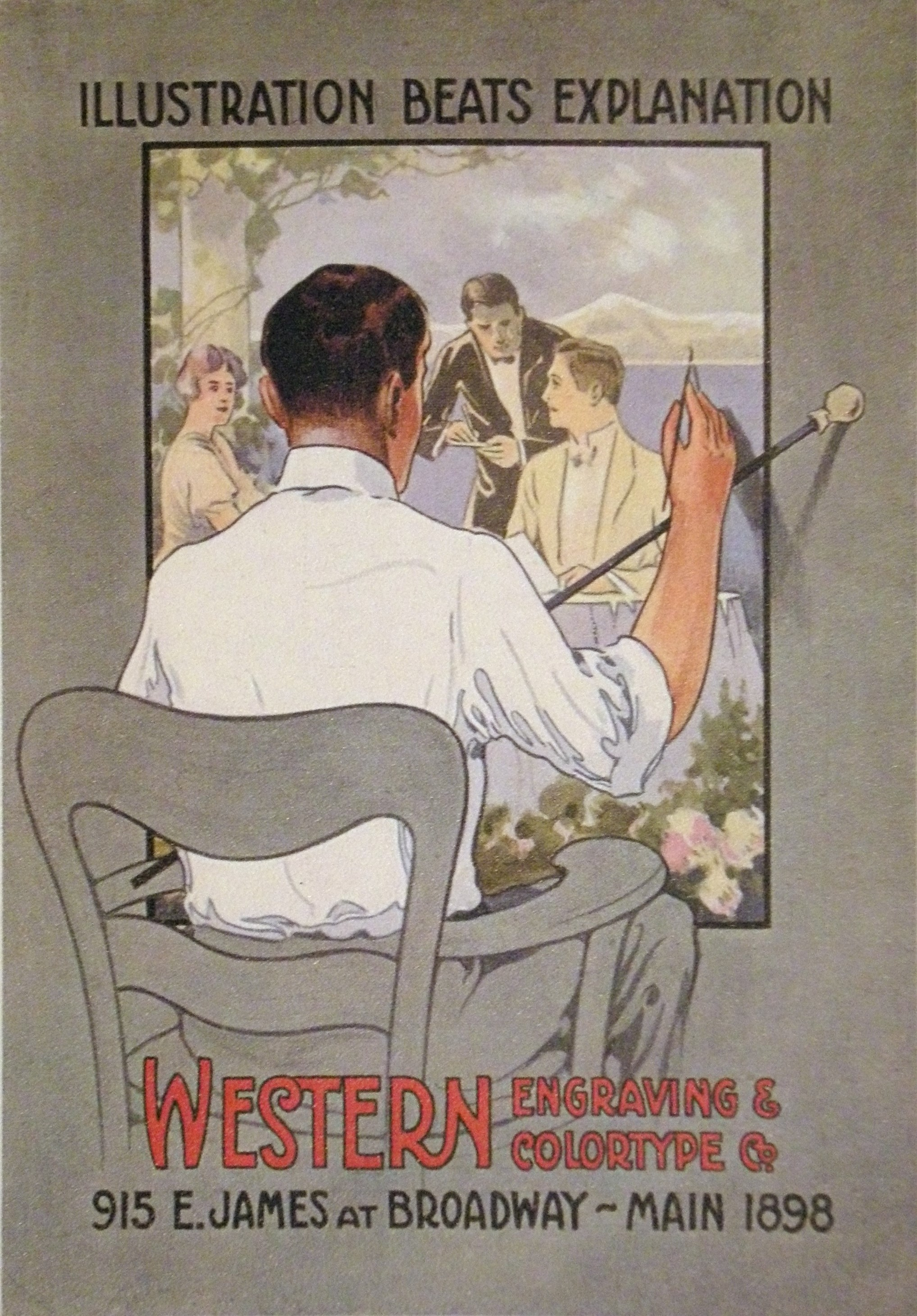 1916 ad for Western Engraving, Seattle, Washington. "Illustration beats explanation. Western Engraving & Colortype Co. 915 E. James at Broadway - MAIN 1898."